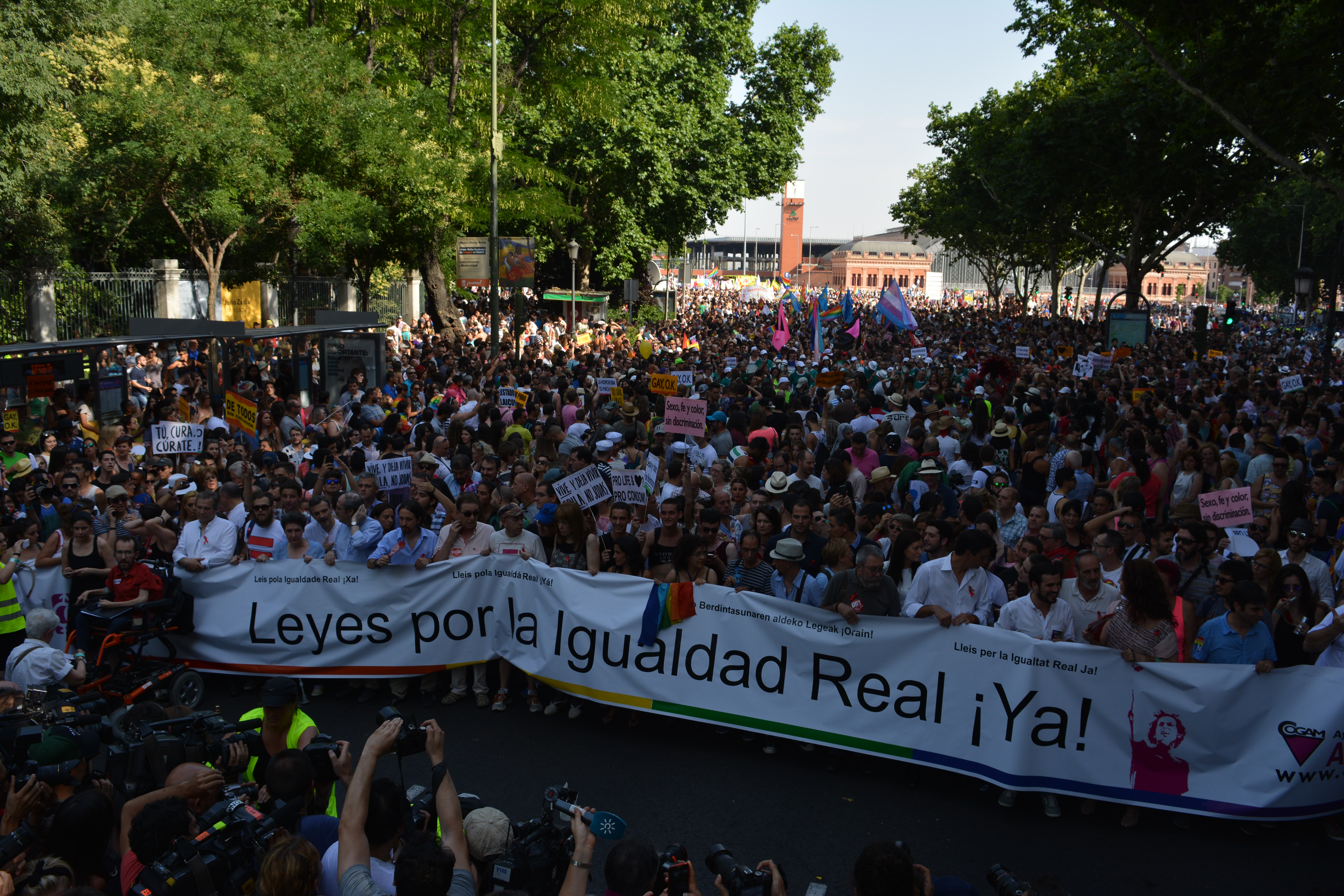 Imágenes de XEGA en la Manifestación estatal del #OrgulloLGTB en Madrid el sábado cuatro de julio de 2015 bajo el lema «Leyes por la igualdad real ¡YA!» organizada por COGAM Colectivo LGTB Madrid y FELGTB.